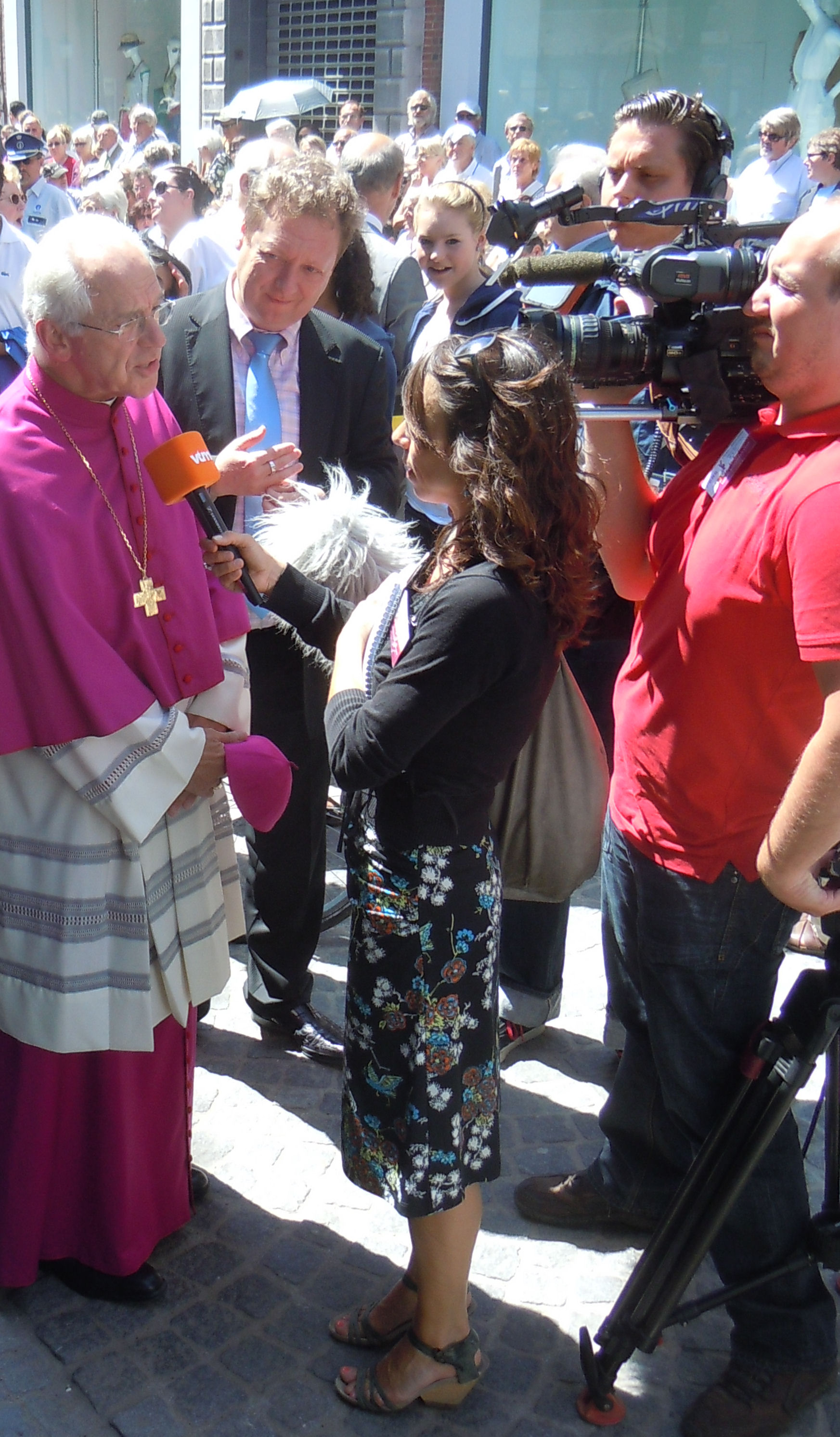 Edition 2011, Mgr. De Kesel